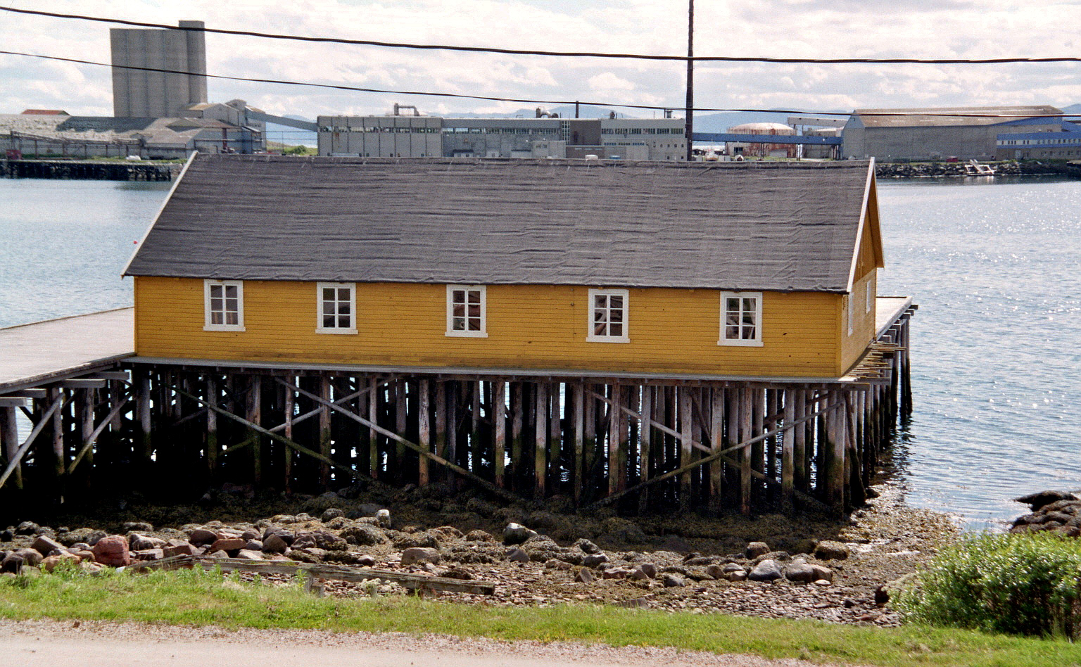 Vadsø, near E75 on the norther shore of the Varangerfjord in Finnmark in northern Norway